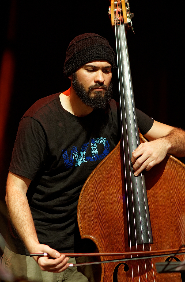 Reza Askari im Artheater Köln, März 2013.jpg